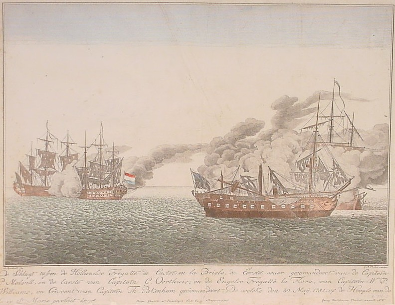 Battle between the Dutch frigates Castor and Brill and English frigates Flora and Crescent, the 30 May 1781 at the Hoogale of Cape St. Mary's.